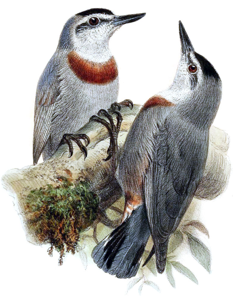 « Sitta krueperi » = Sitta krueperi (Krüper's Nuthatch)